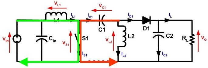 Current directions with S1 closed